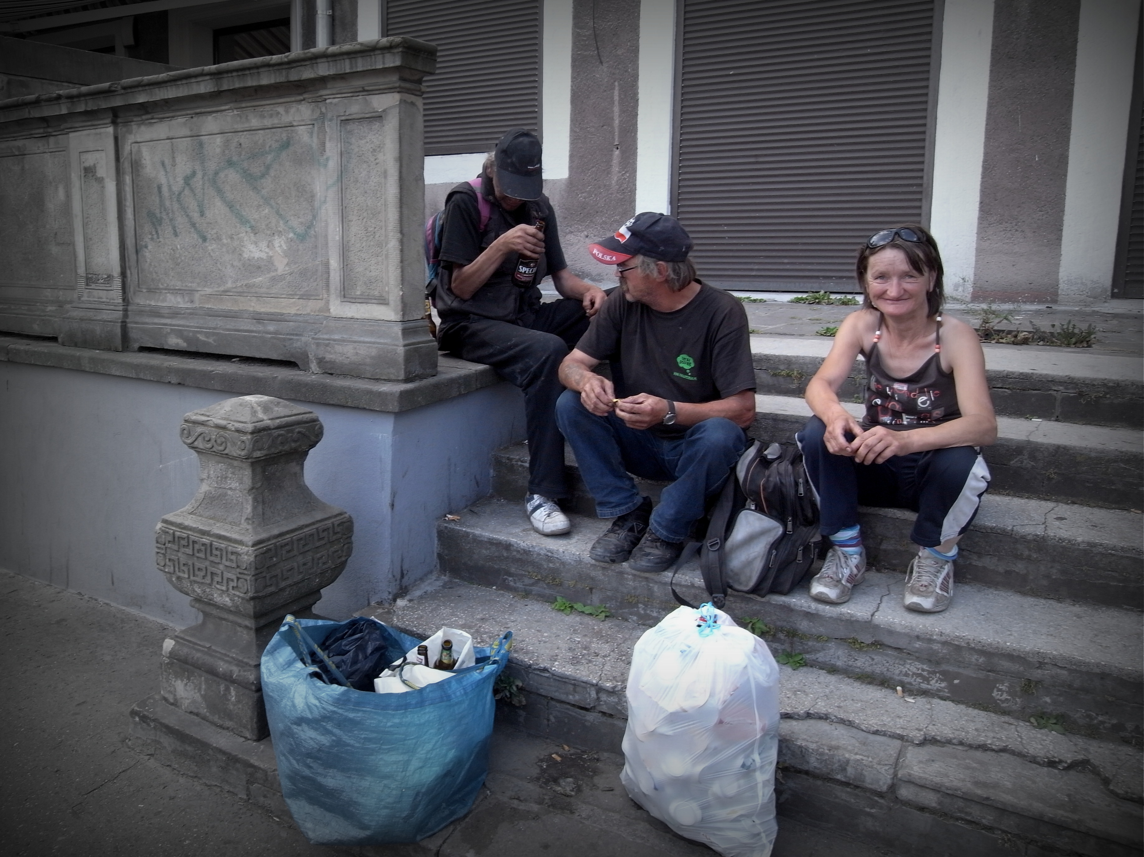 Gdańsk. Targ Rybny. Homeless people.